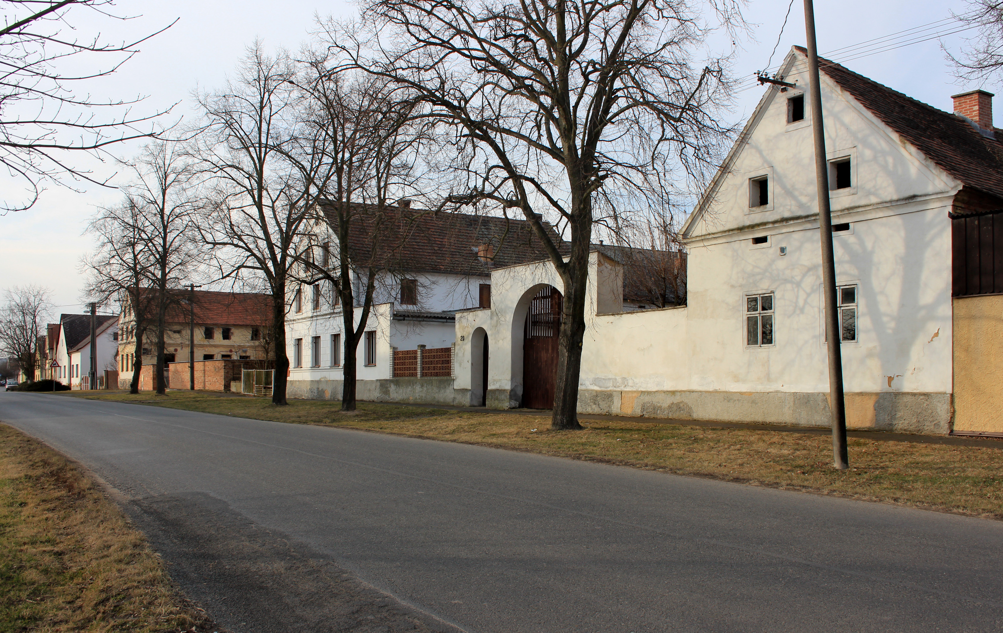 Main street in Přehýšov, Czech Republic.